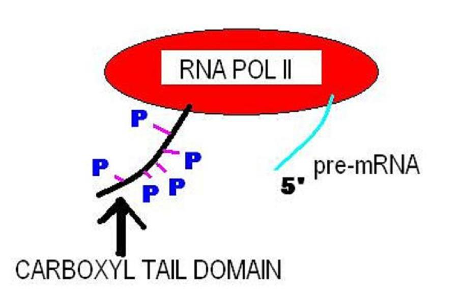 RNA POL II CARBOXYL TAIL DOMAIN 5' END OF mRNA